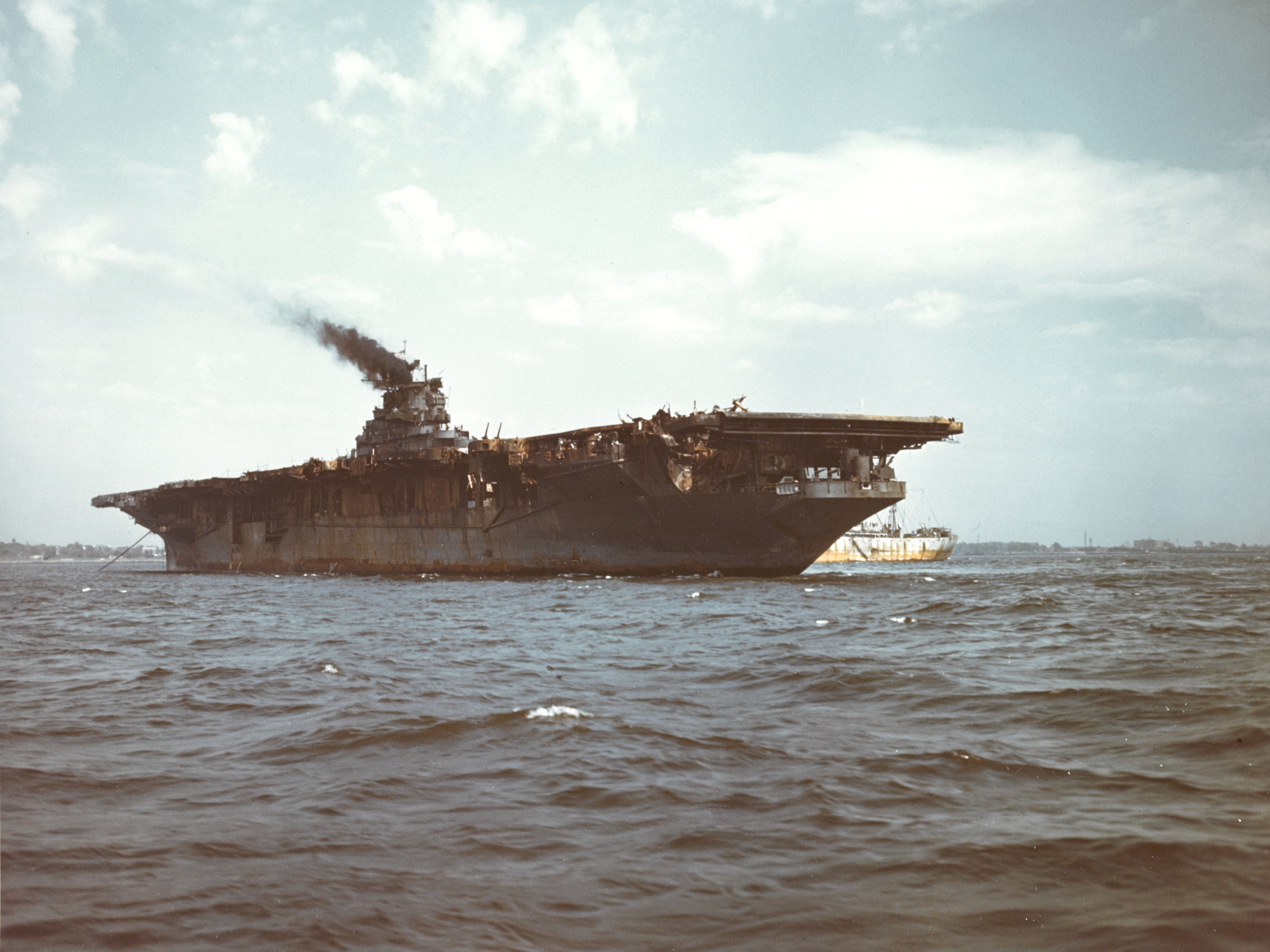 The U.S. Navy aircraft carrier USS Franklin (CV-13) anchored in the lower New York Harbor on 28 April 1945, soon after her return for repairs following war damage.